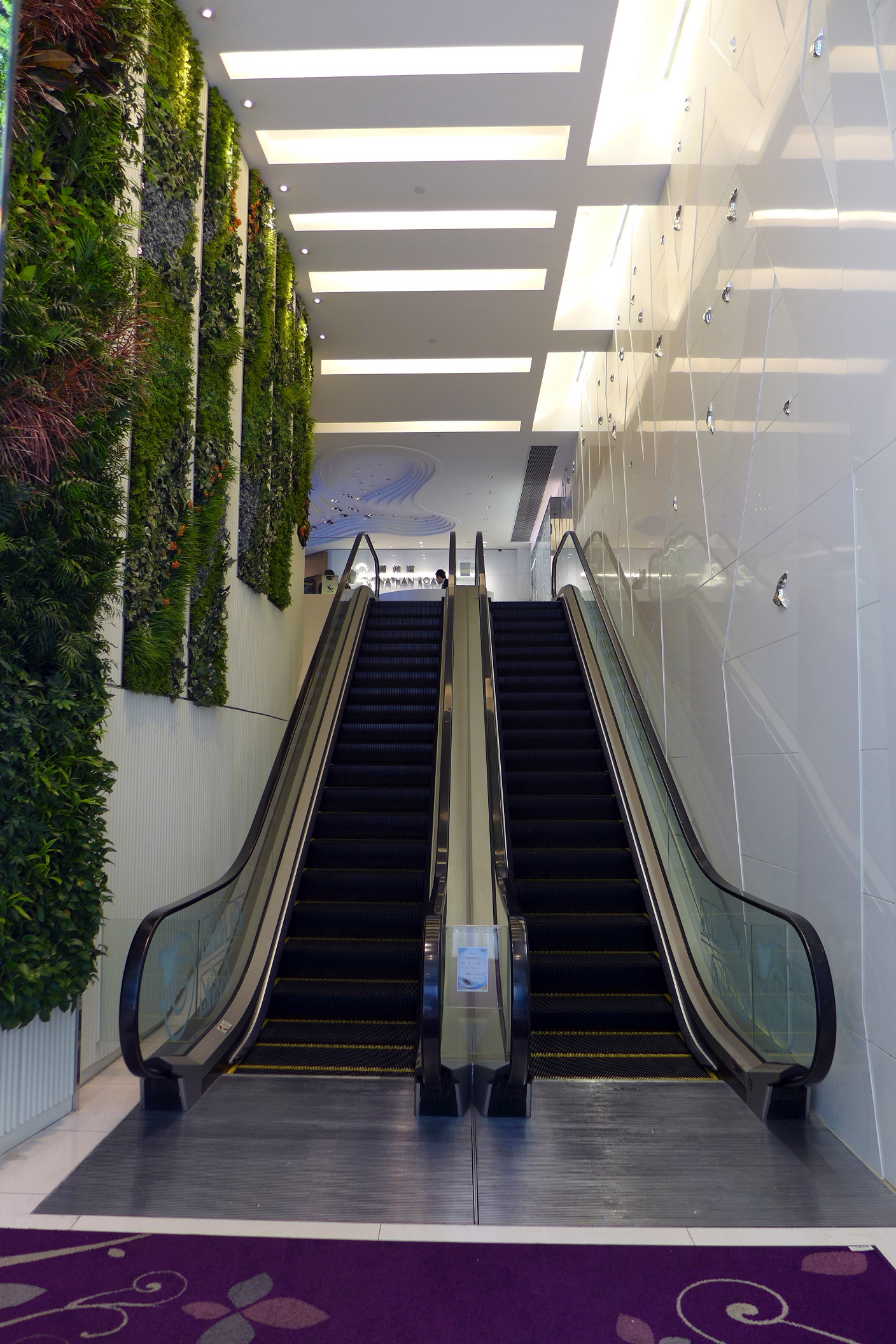 Nathan No 26 office Entrance